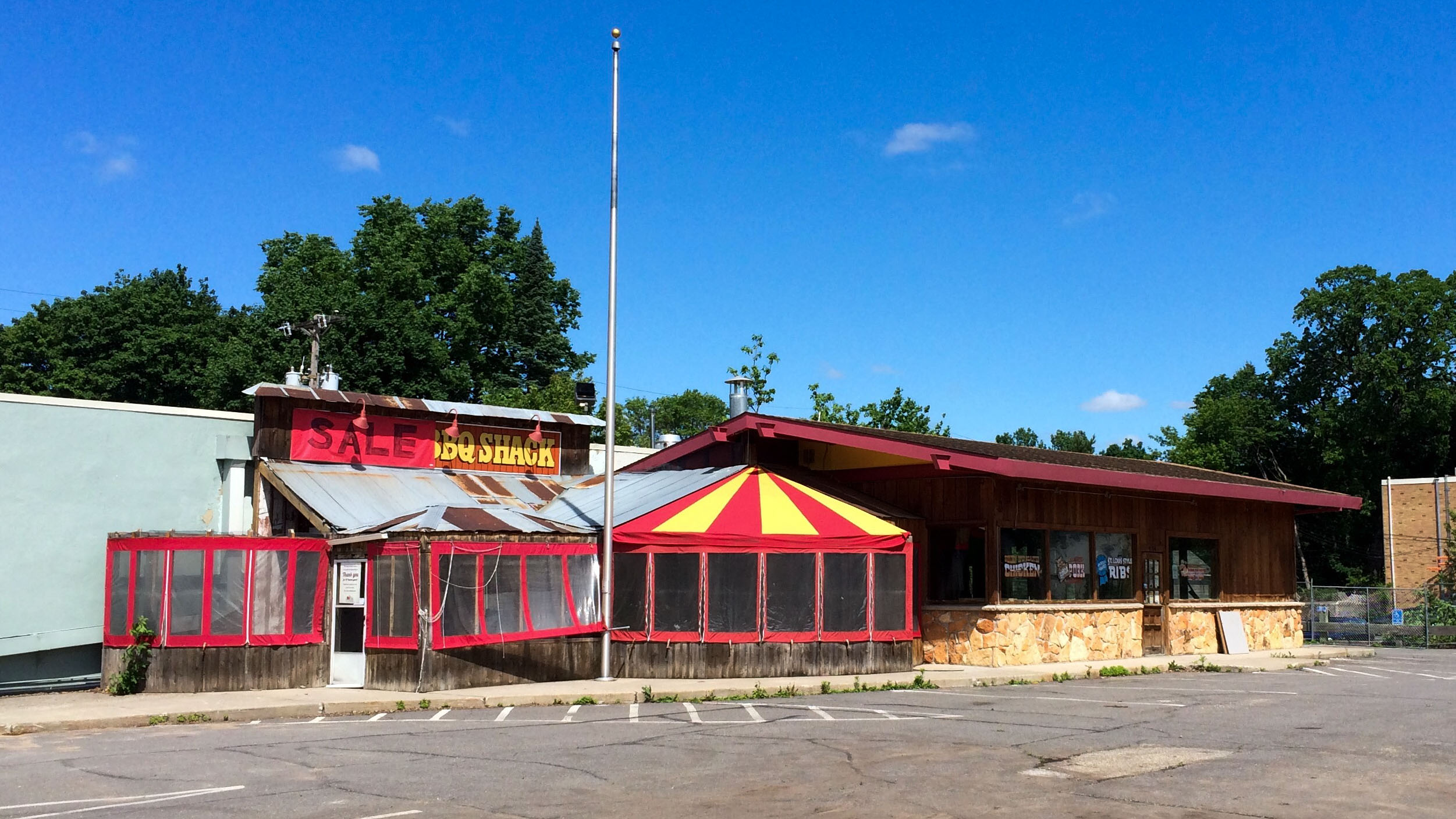 Famous Dave's second location in Linden Hills neighborhood of Minneapolis, Minnesota. Opened 1995, closed in 2014 for redevelopment. Demolished in 2016.